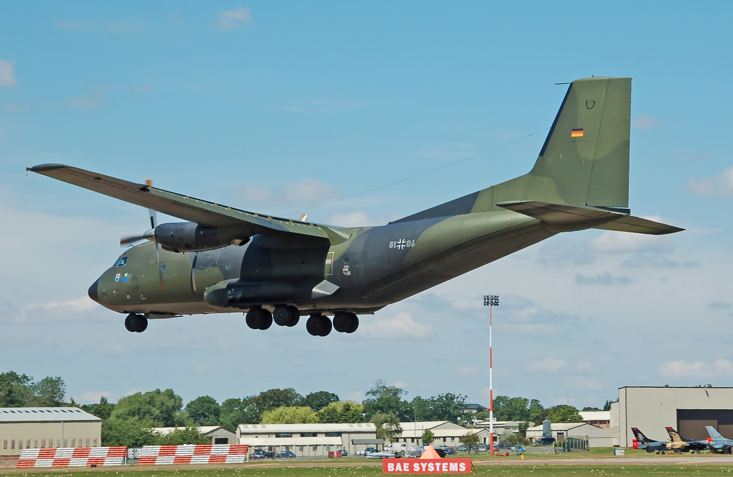 German Air Force Transall C-160D (51-06) arrives at RAF Fairford, Gloucestershire, England, on 10th July 2014, for the Royal International Air Tattoo. (Noise-corrected version)